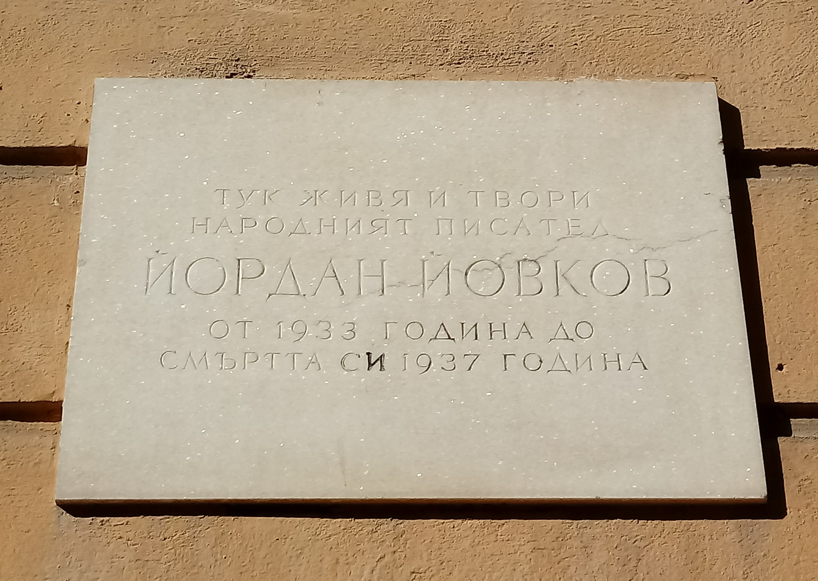 Memorial plaque of Bulgarian writer Yordan Yovkov, 13A Yantra Str., Sofia